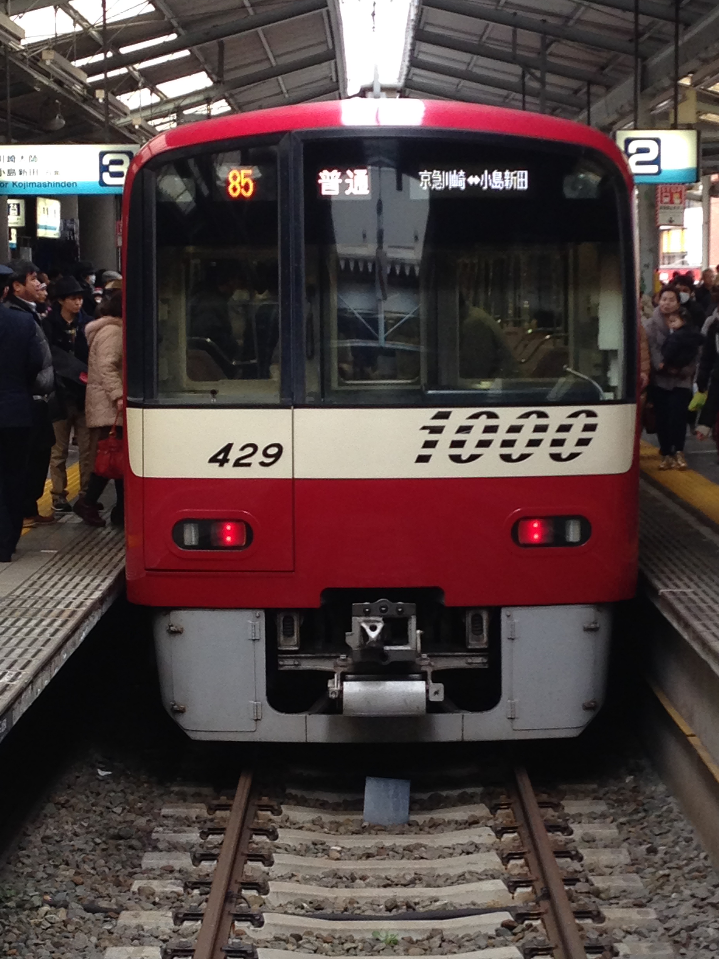 Keikyu N1000 series EMU unit 1429 at Keikyu Kawasaki Station on a Daishi Line service